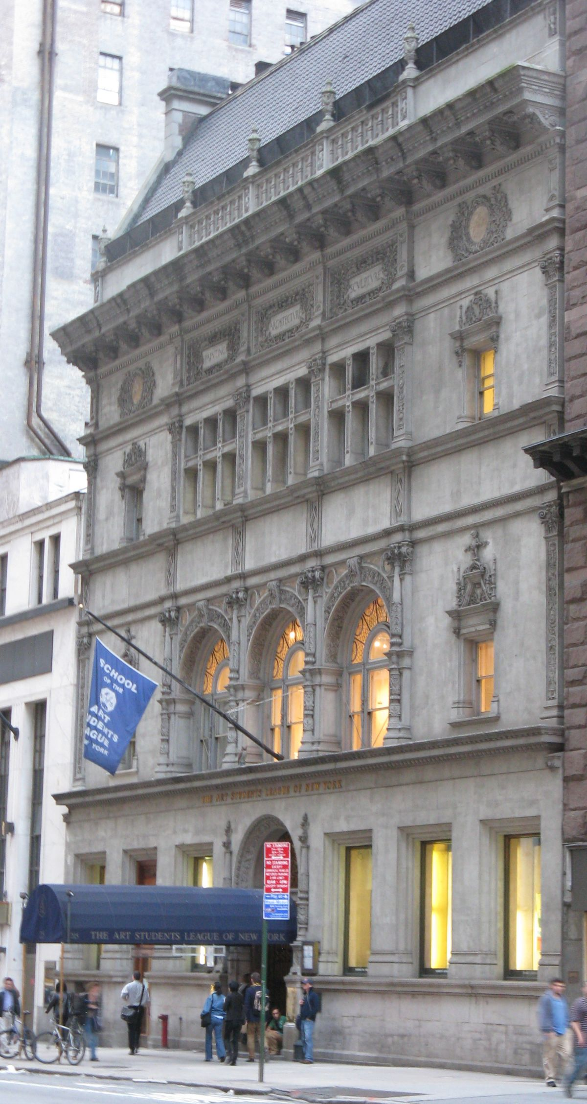 American Fine Arts Society Building, home of the Art Students League of New York.